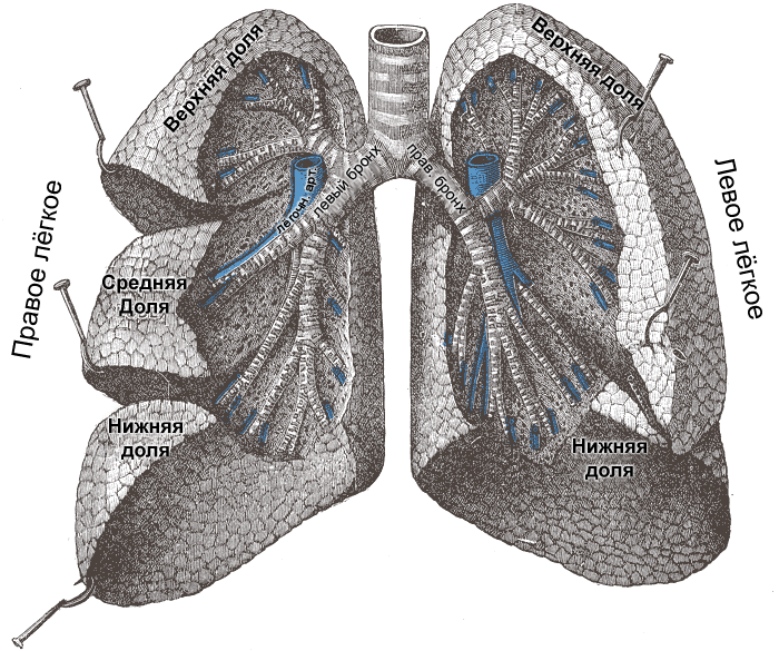 Russian version of PD image Image:Lungs.gif Translated by User:MaxSem